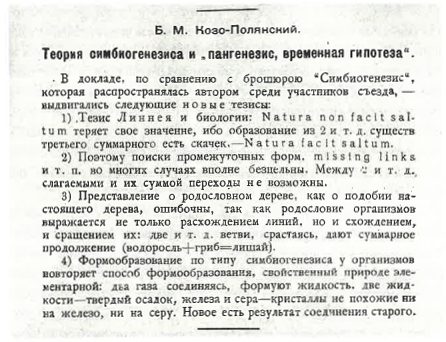 It is a scanned photo of the original abstract Kozo-Polyansky gave to the All Soviet Botanical Conference.